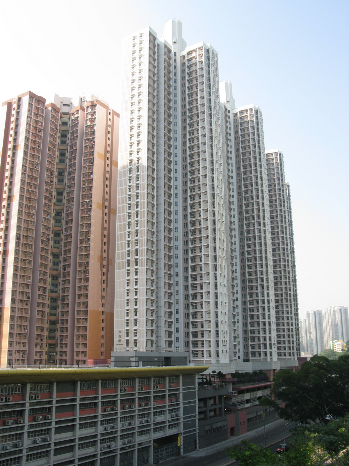 New Cruciform Blocks of Yau Chui Court (f.k.a. Yau Mei Court). The building at the back is part of Yau Tong Estate.